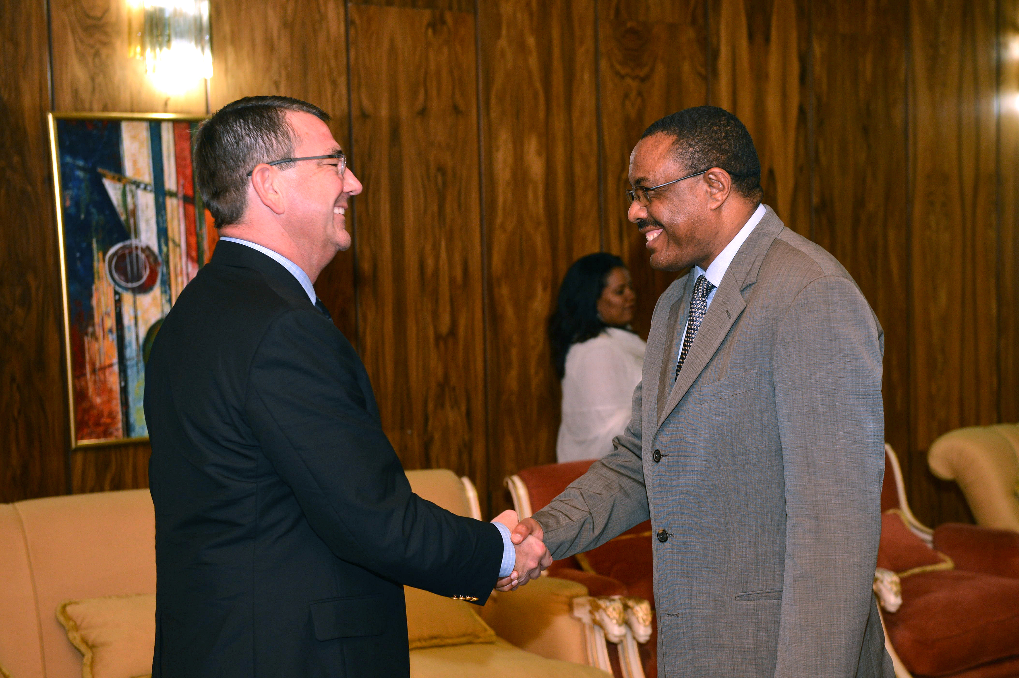 Deputy Secretary of Defense Ashton B. Carter, left, is greeted by Ethiopian Prime Minister Hailemariam Desalegn at his office in Addis Ababa, Ethiopia, on July 24, 2013. Carter is visiting Ethiopia to meet with senior government and military leaders to affirm the growing security partnership between the United States and the East African nation.